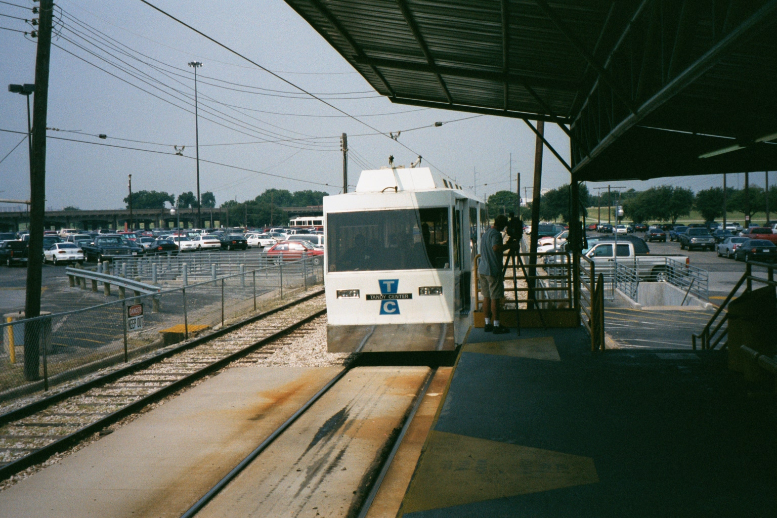 Tandy Center Subway train approaching the station